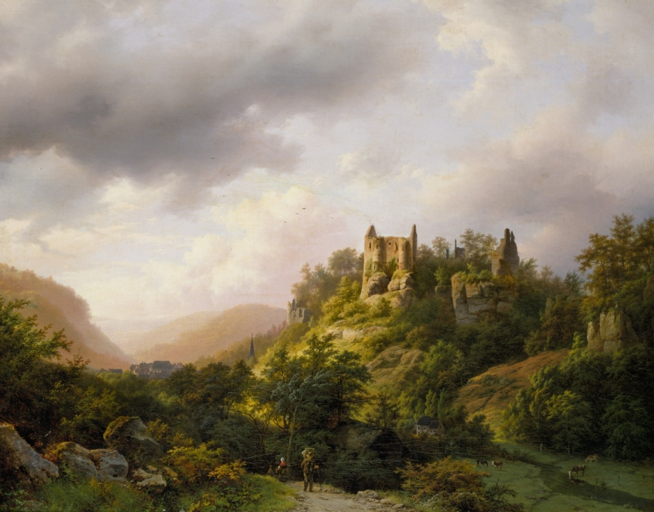 Barend Cornelis Koekkoek (1803-1862): Burg Fels in Luxemburg. Château de Larochette au Luxembourg. 1848.